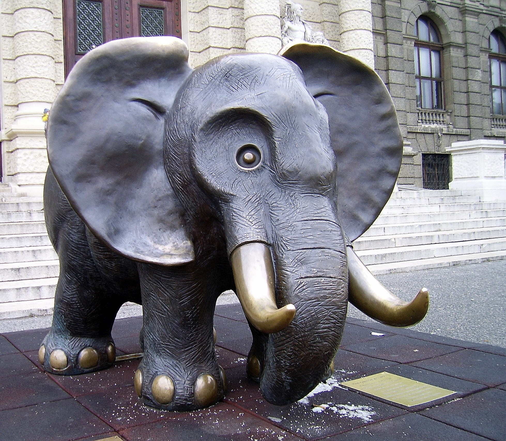 Bronze elephant in front of Museum of Natural History